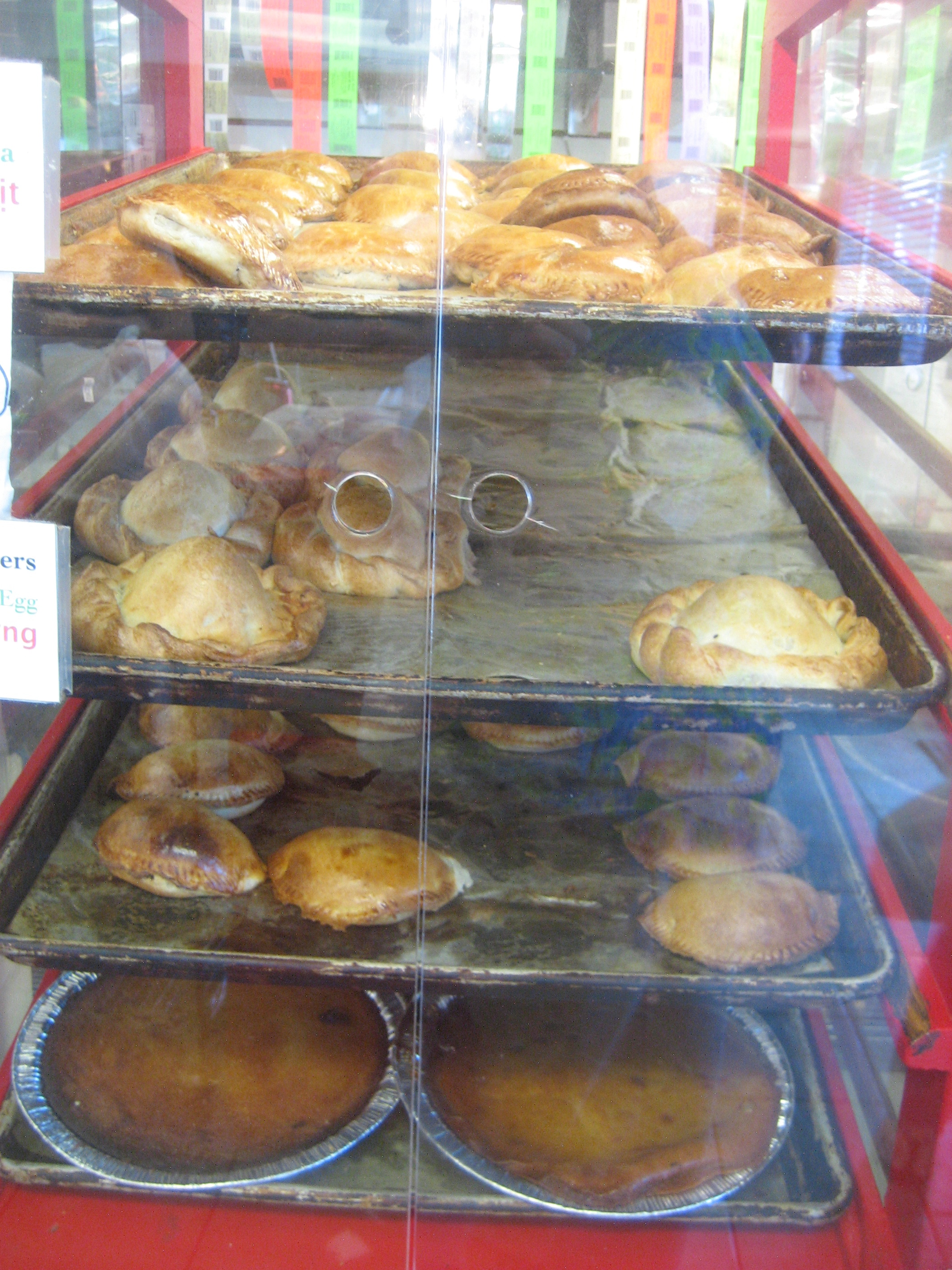 Dong Phuong Restaurant & Bakery, Eastern New Orleans. Meat pies.